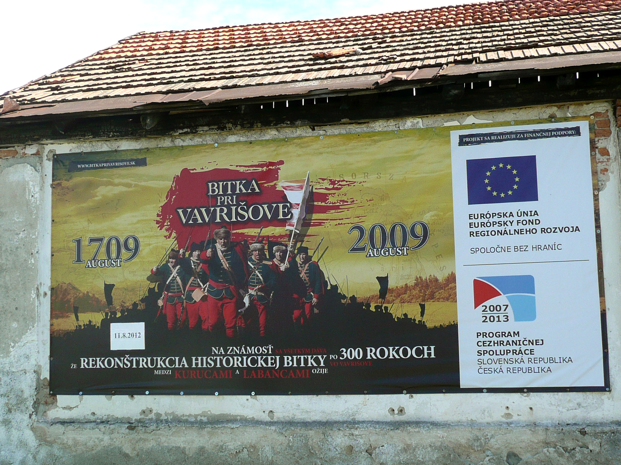 Battle in August 1709 in the village of Vavrišovo, Žilina region - reconstitution in 2009 with European Funds